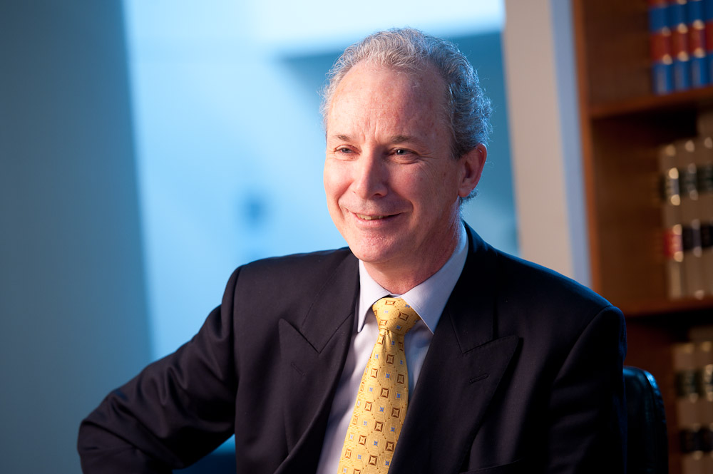 Brian Walters (born 1954) - Australian barrister, human rights advocate and Greens politician